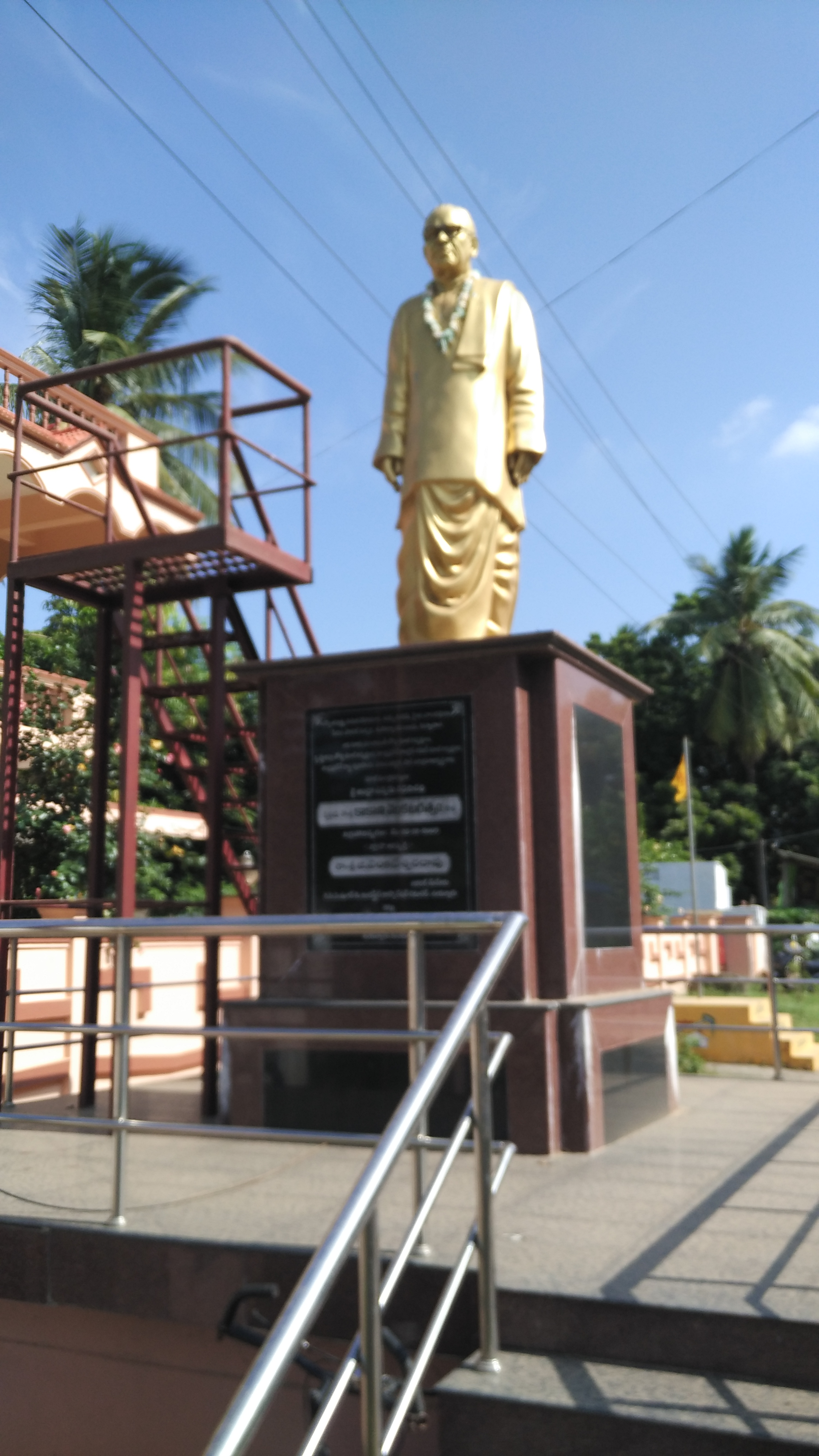 Kakani Venkata Ratnam, a former Cabinet Minister in Andhra Pradesh in India was born in Akunuru, Krishna district of Andhra Pradesh. This is a statue commemorating him situated at his native village Akunuru of Krishna district.